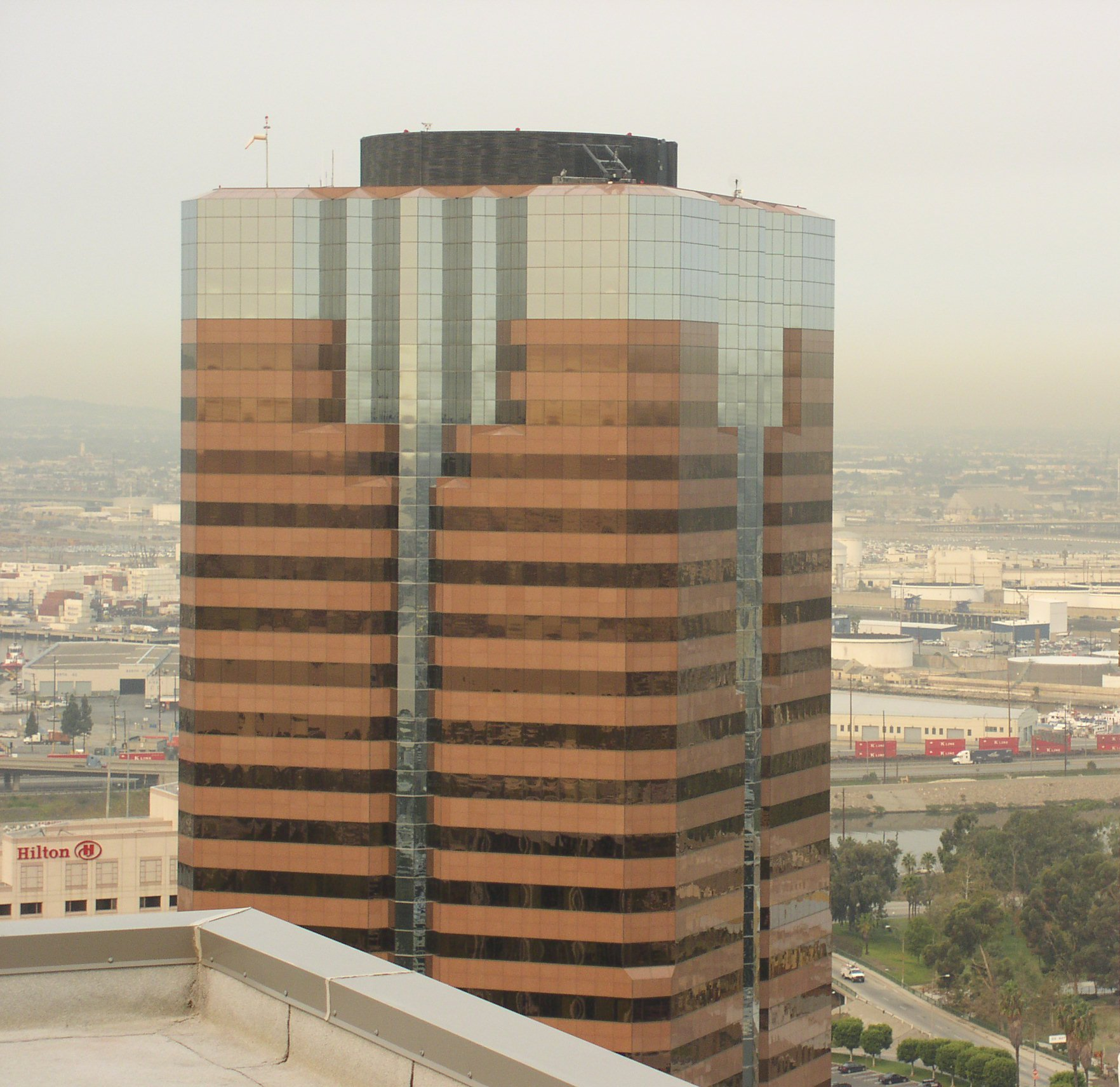 One World Trade Center, a 30-story, 397-foot-tall office tower in Long Beach, California, USA.